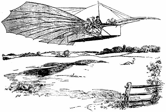 Line drawing (not a woodcut) which accompanied the full-page August 18, 1901, feature report of claimed eyewitness account of Gustave Whitehead flying with power for a distance of "one half mile" on August 14, 1901.